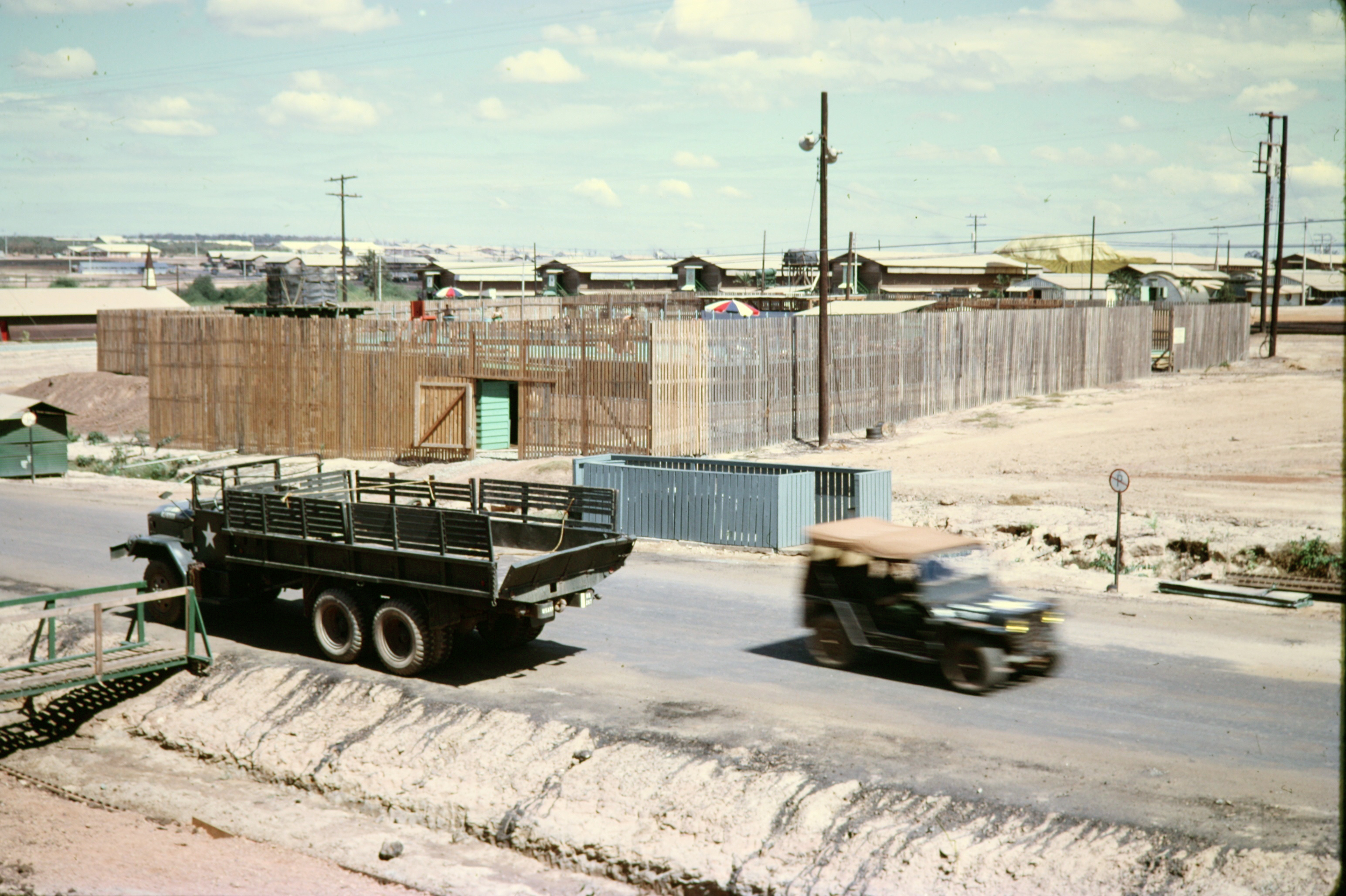 Swimming pool for Special Troops (headquarters battalion) USARV Long Binh Post